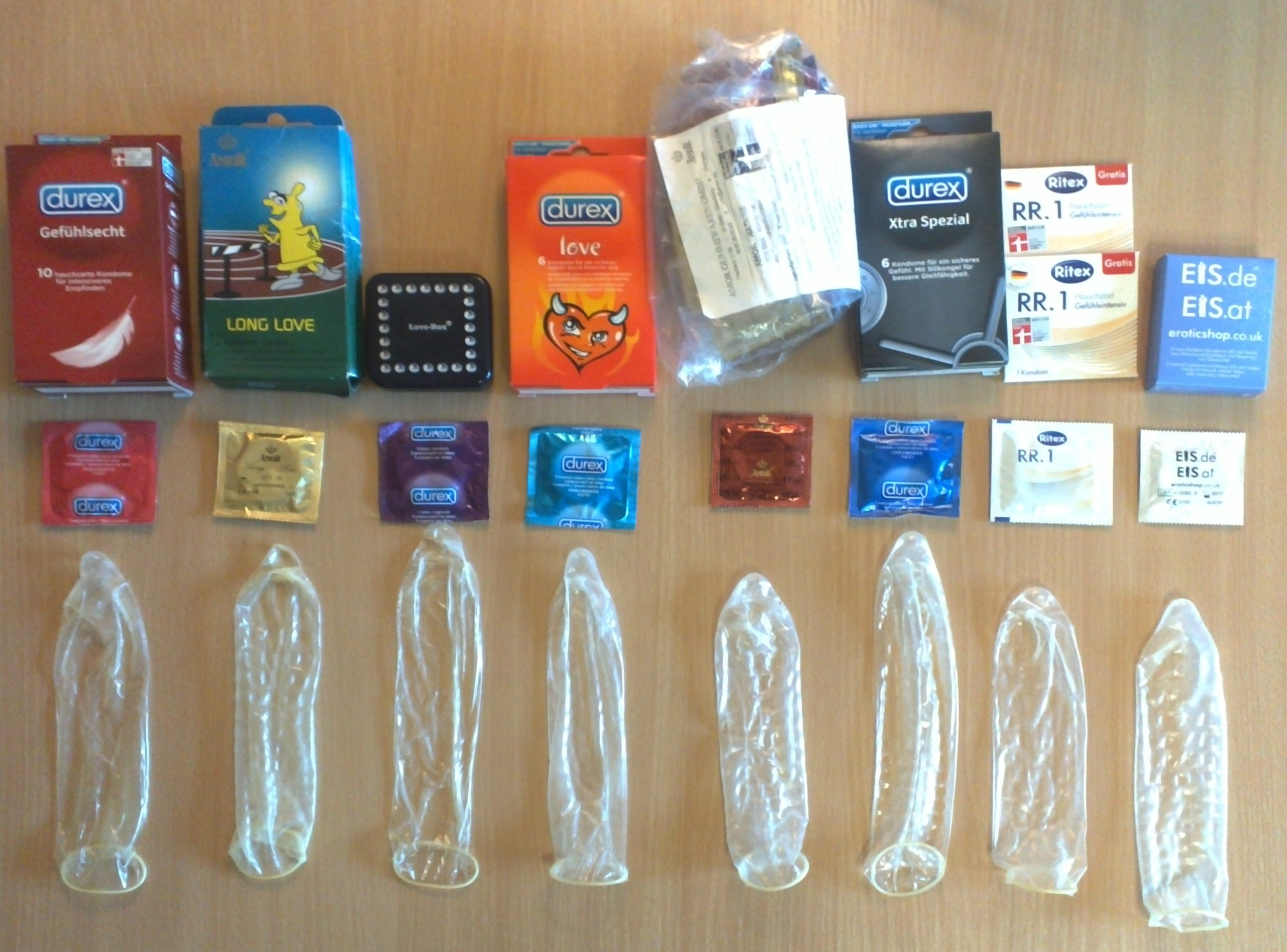 The picture gives an overview over several types of condoms available in Germany, made by different manufacturers. Some of them are delivered in normal cardboard boxes (6 - 12 pcs), some are free advertisement or give-away samples (1 - 3 pcs) and some are in big-packs (100+ pcs). Each condom type is shown packed (upper row), in its foil wrapper (middle row) and unpacked and unrolled (bottom row). The purpose of the picture is to show the variability of packaging, appearance and size of the condoms.